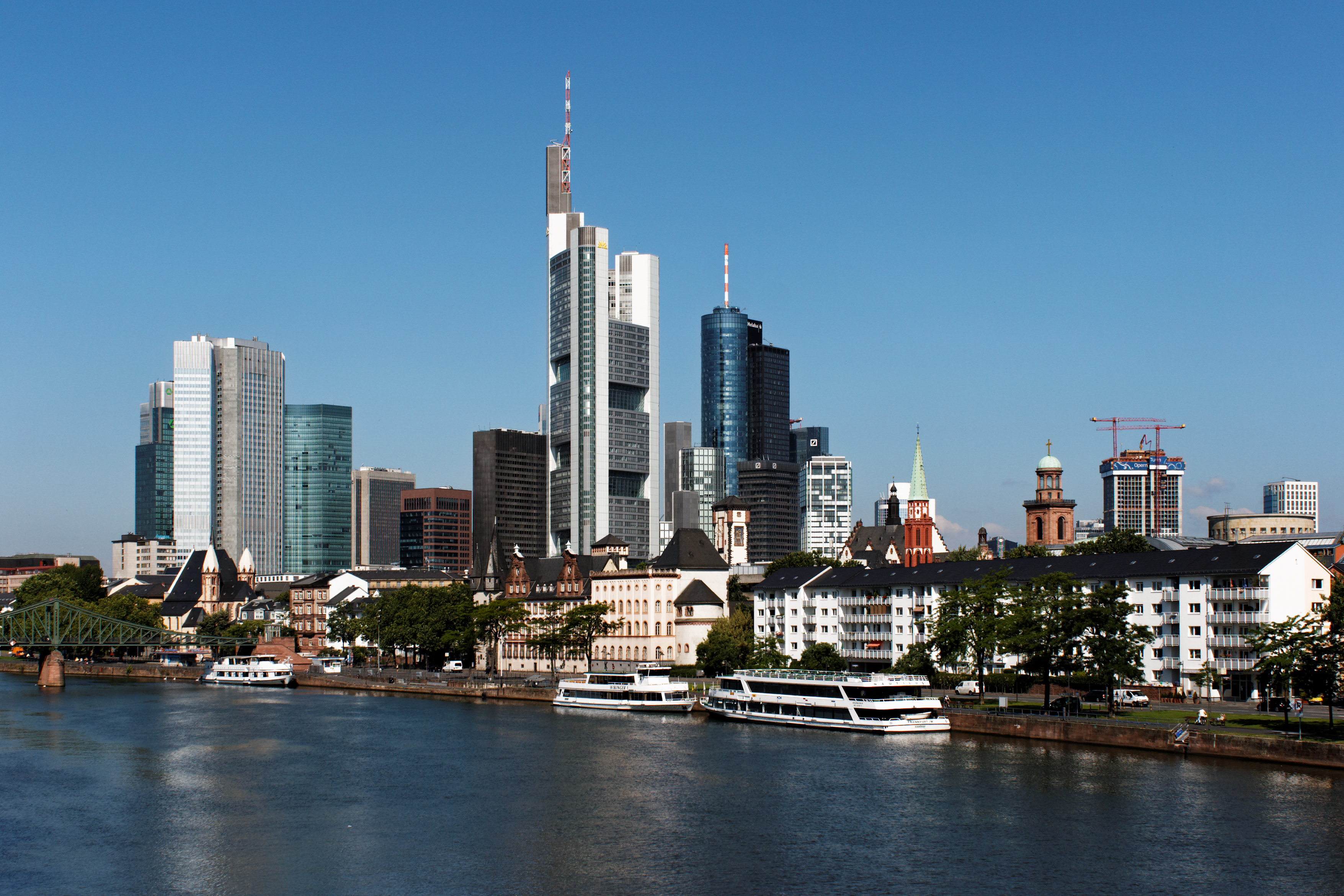 Skyline of Frankfurt am Main, Germany